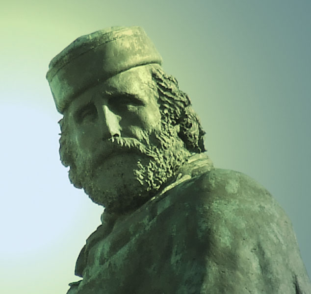 Detail of the monument to Giuseppe Garibaldi, in Rome (made by Emilio Gallori in 1895).